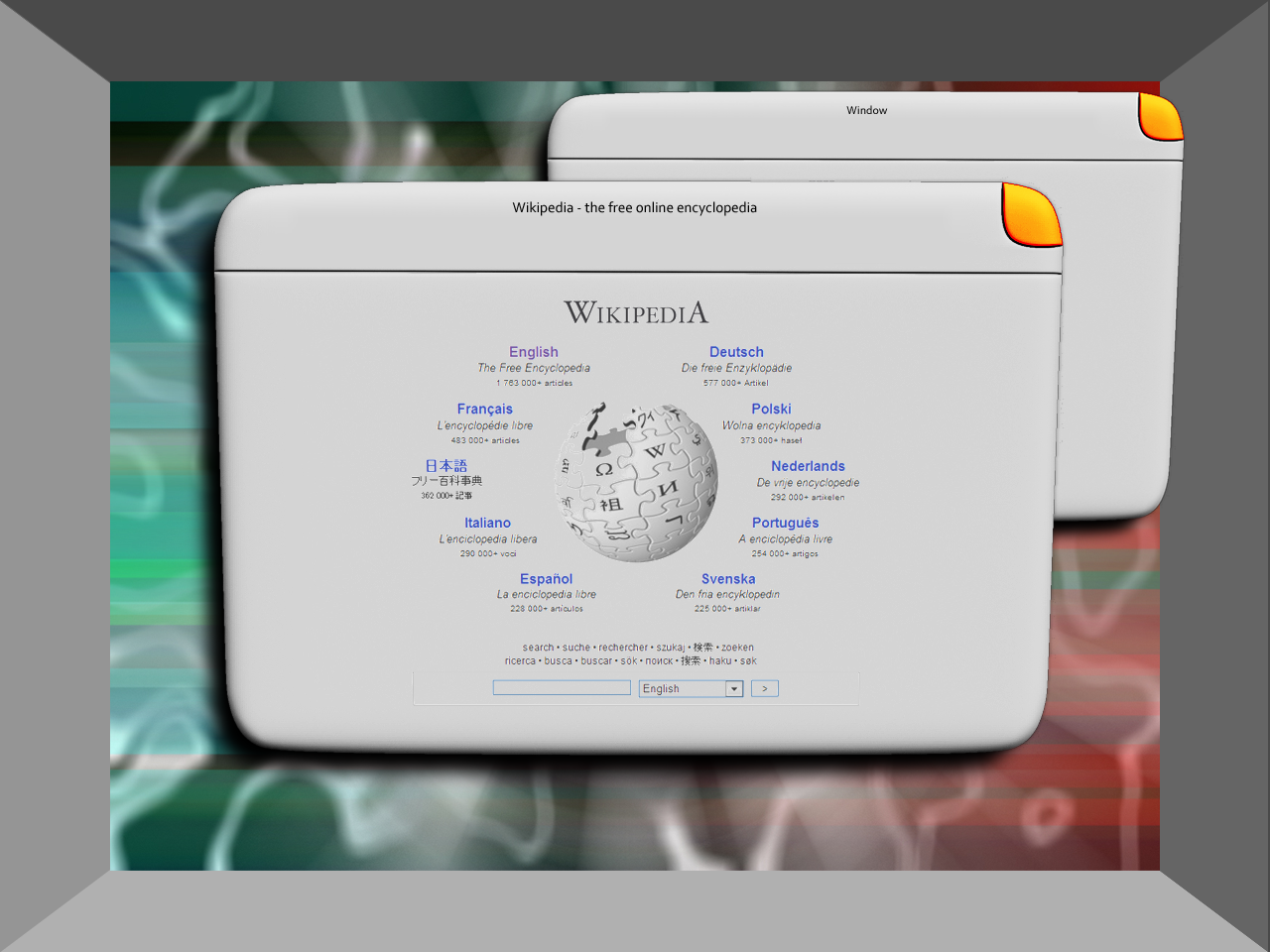 This is a very preliminary form of 3D vector-based graphical user interface found in a privately funded 3D vector-based graphical user interface research project. In this case, the buttons for the windows have not been made yet. A website in the internet browser in the foreground can be seen, but the website is based on raster graphics (except for the text), so it has to be textured to the window first. The background is a raster image. The windows have a slight perspective since they are 3D. In a 3D user interface, the background windows are literally in the background; they "sink" behind. The windows are based on the polygon geometry.